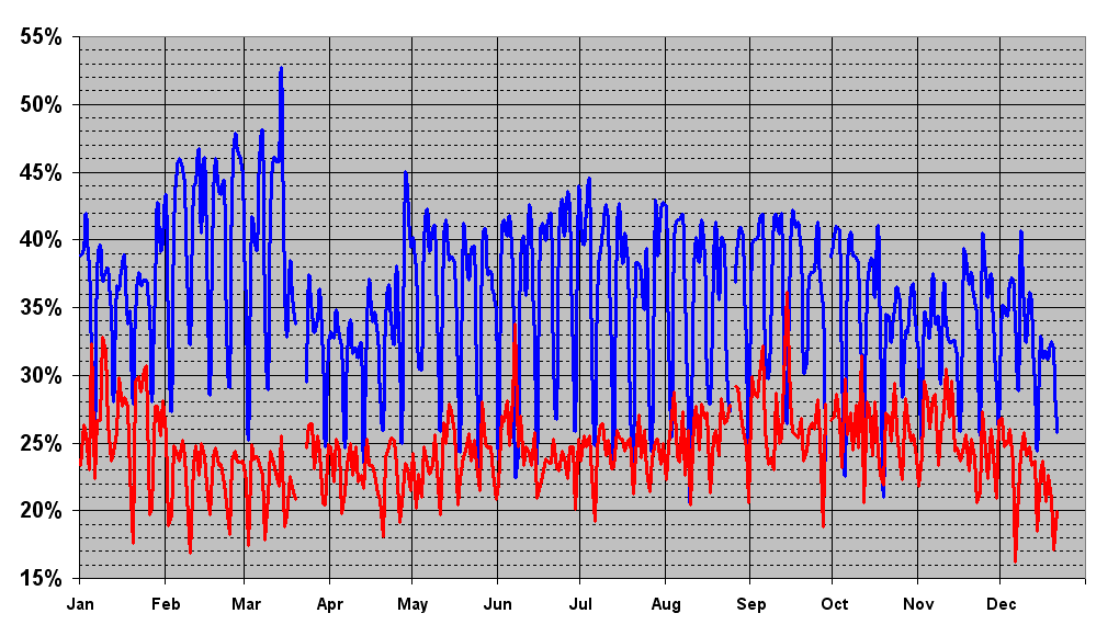 Primetime television ratings for 2008 in the Philippines: *Blue = GMA *Red = ABS-CBN The charted points represented the TV program that had the highest rating for that station for that day.